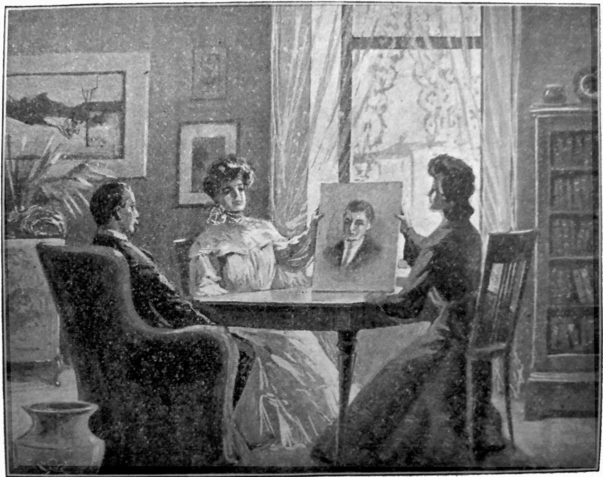 The Bangs Sisters precipitating a spirit portrait for a sitter, from an advertisement in a November 1905 issue of Reason Magazine.